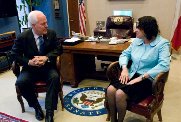 Senator John Cornyn of Texas with Supreme Court nominee Sonia Sotomayor.